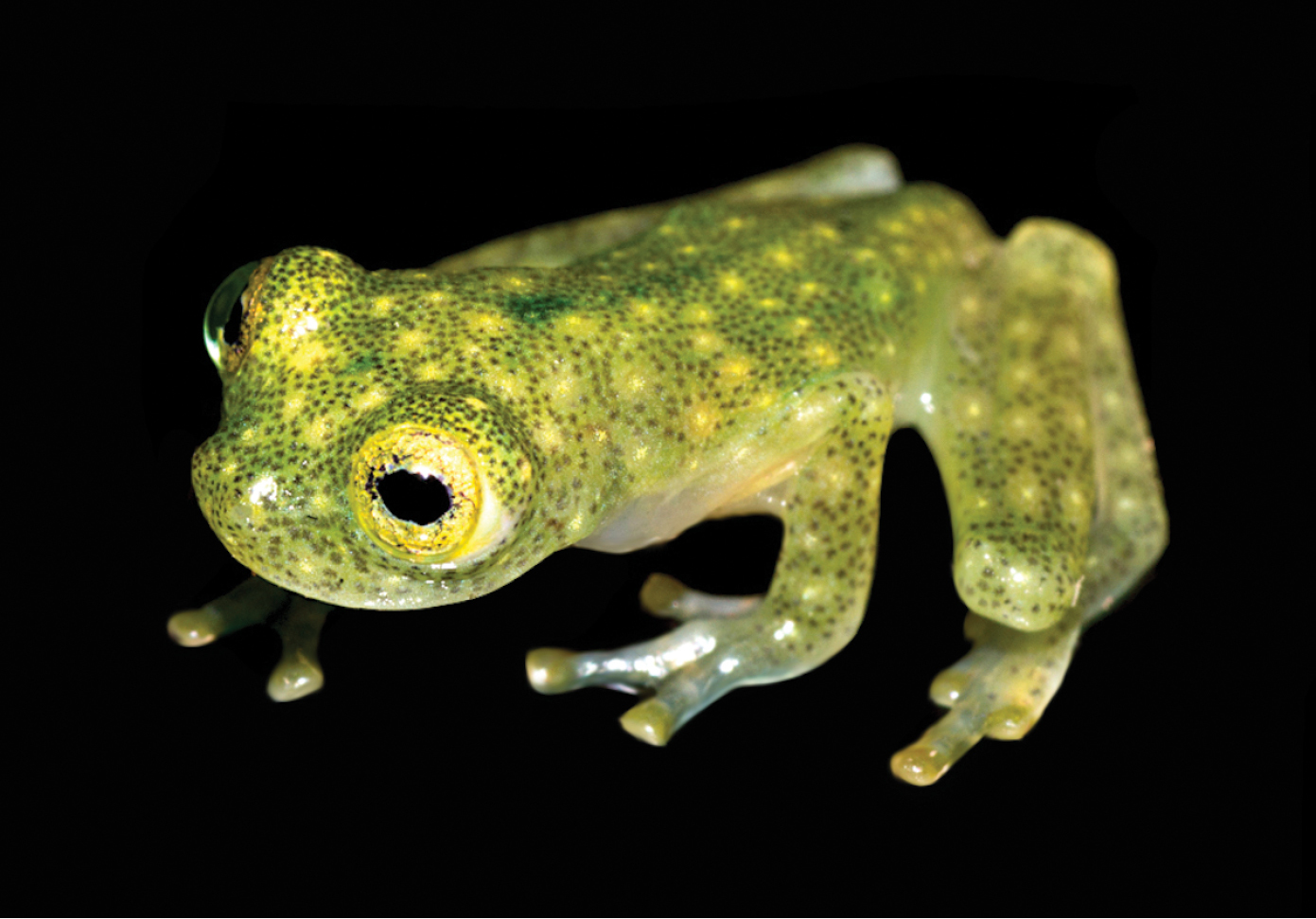 Juvenile of Hyalinobatrachium yaku in life, QCAZ 53354